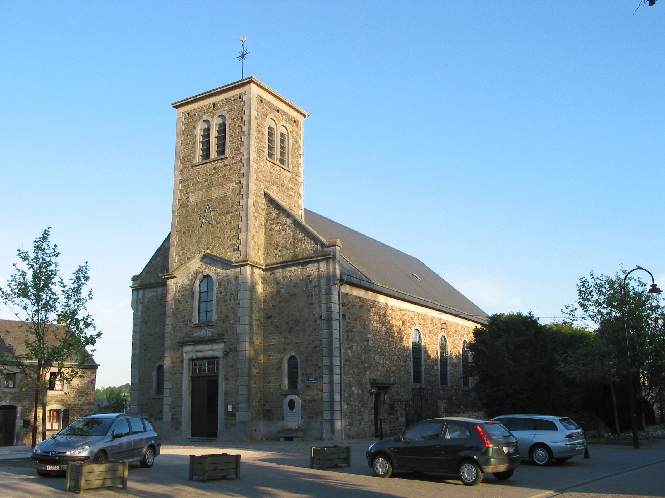 Érezée, Belgium: St. Lawrence's church.